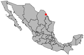 Location of Piedras Negras